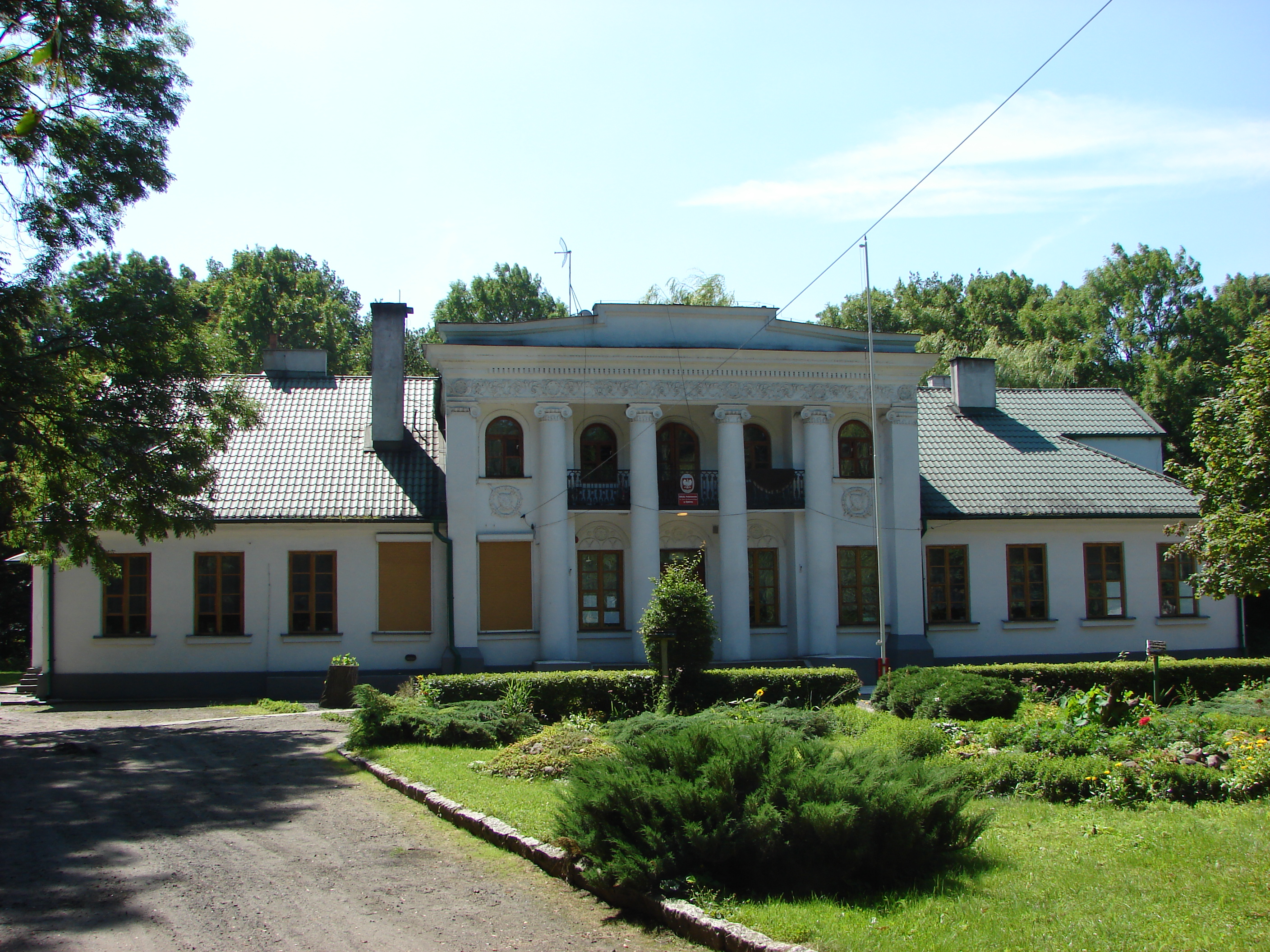 Dyblin, Gmina Dobrzyń nad Wisłą, Lipno County. Manor house, built in the first half of XIX century.